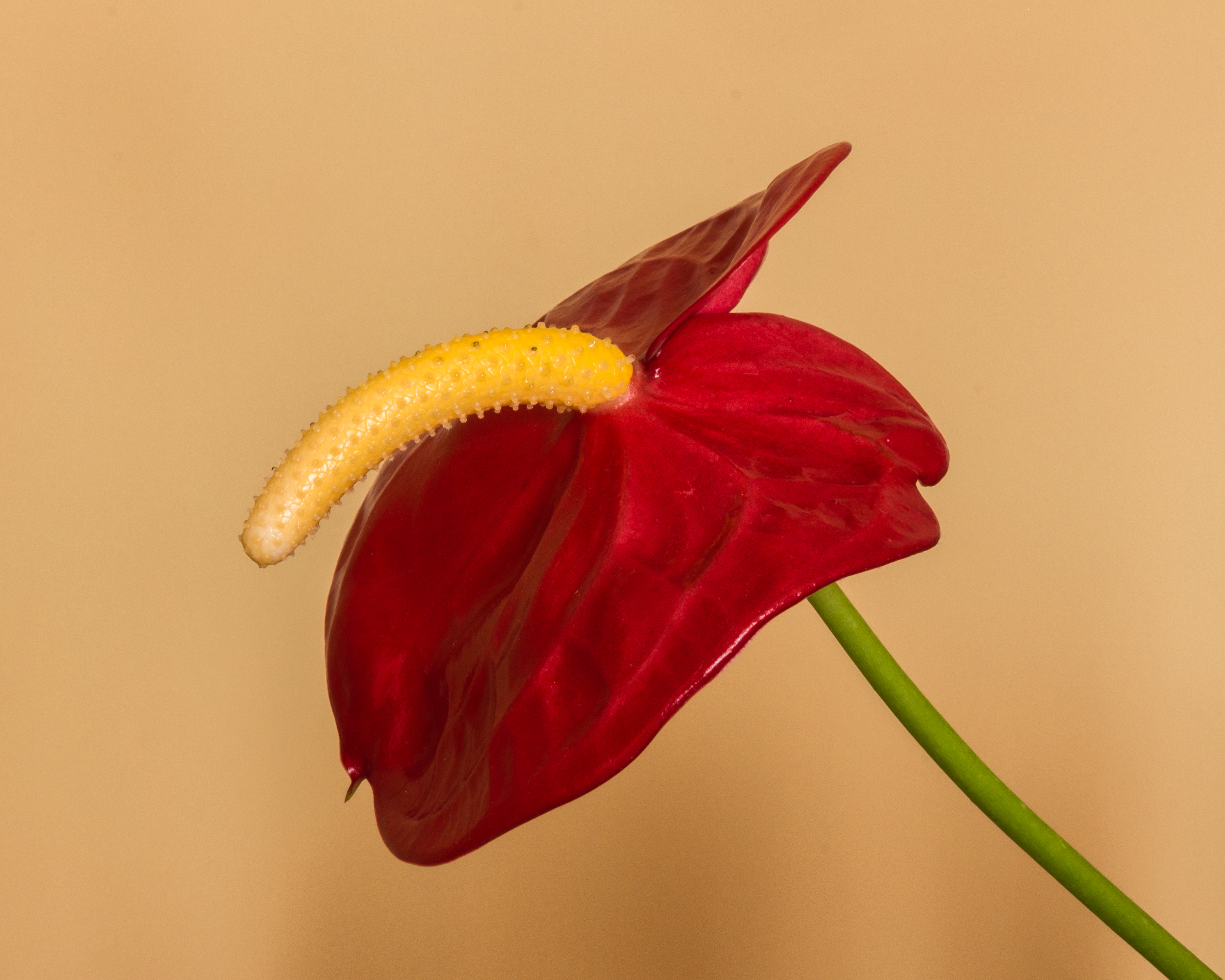 Anthurium (Flamingo plant). A popular houseplant in the Netherlands.